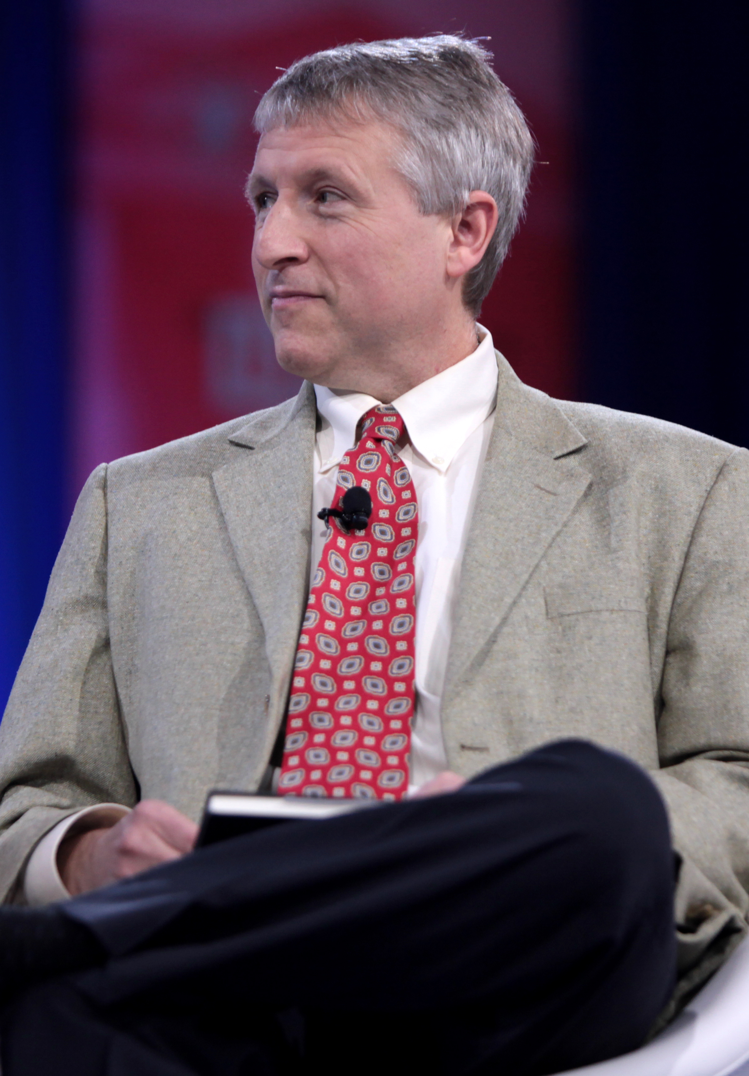 Paul Kengor speaking at CPAC 2016 in National Harbor, Maryland.